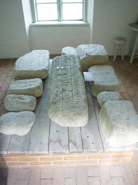 fragments of the Stones of Mora